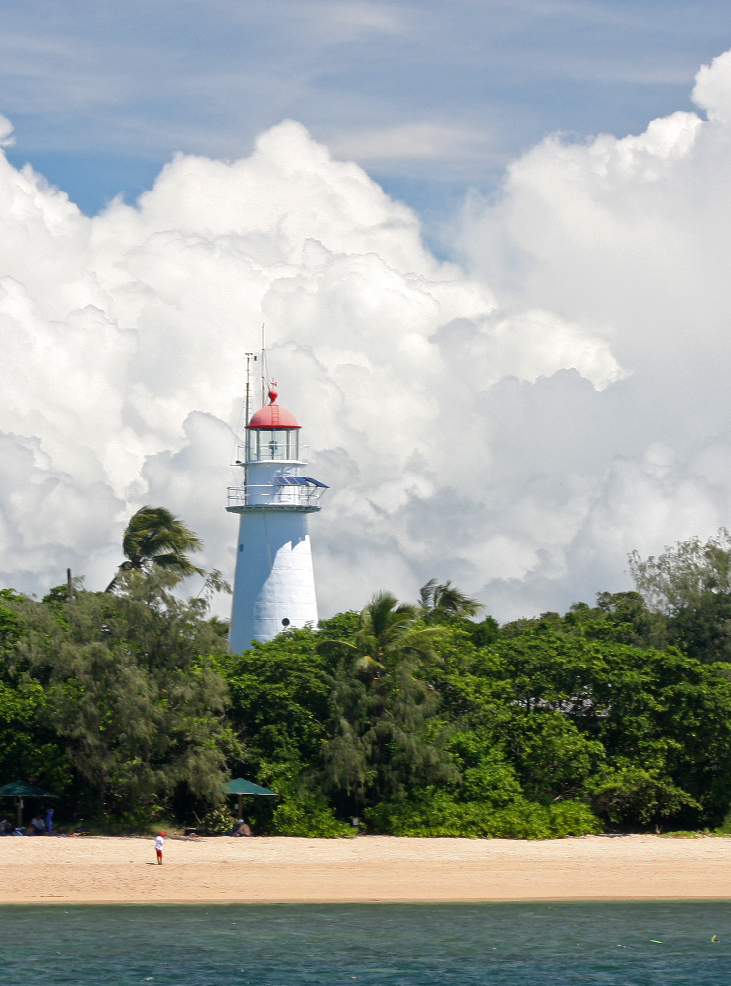 This lighthouse stands on the small island of Low Isle a few miles off of Port Douglas.